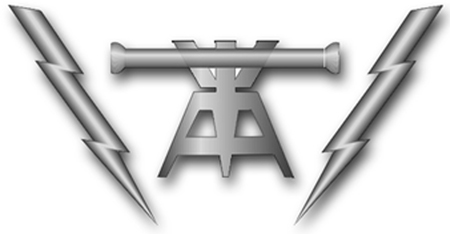 US Navy Fire Controlman (FC). A range finder with spark on each side that faces inward.